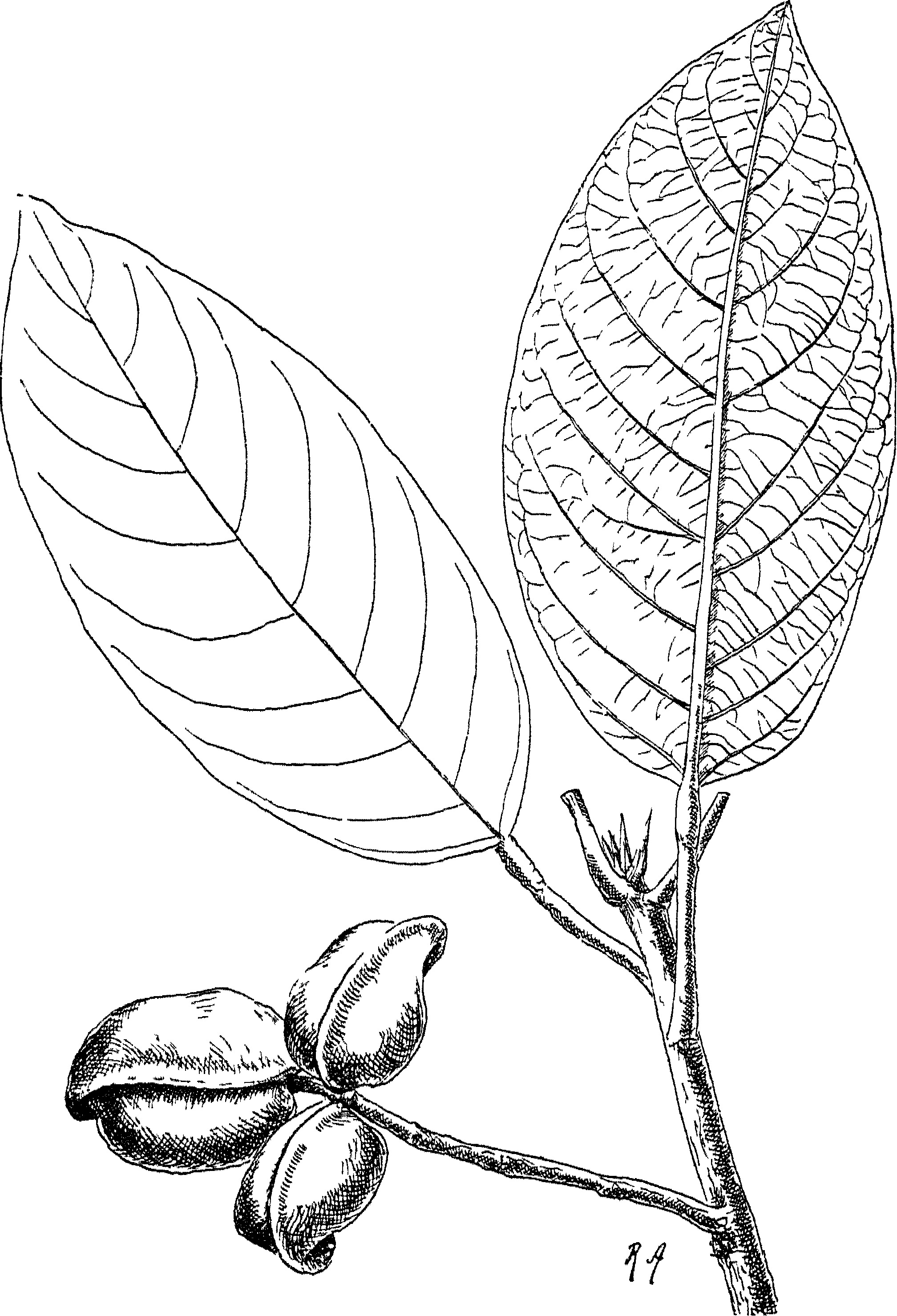 Title: Indian trees : an account of trees, shrubs, woody climbers, bamboos, and palms indigenous or commonly cultivated in the British Indian Empire Year: 1906 (1900s) Authors: Brandis, Dietrich, Sir, 1824-1907 Subjects: Trees Publisher: London : A. Constable & Co. , Ltd Text Appearing Before Image: 8 Jti.^. bX Jl/iAiGUijiixGllj-dij (Ilerltiera I'ounded or slisjlitly cordate base, blade 5-10, petiole ^-; in. Panicles shorter than leaves, fl. pale greenish-pink, calyx \ in. long. Ripe carpels 1-3, 1W3 in., glabrous, shining, with a strong sharp keel. Text Appearing After Image: Fig 41.—Heritiera httorali!^, Dryander. J. Coast of Burma and the Andamans, coasts of the Peninbiila and Ceylon. PL B. S. Seashore withm the tiopics of the old world and Anbtralia. 2. H. Fomes, Bnch. (H, minor^ Eoxh.j Kiirz, P. Fl. i. 141). Simdriban, sea coast of Burma and the Malay Peninsula. Leaves narrowed towards the base, blade 4-6, petiole ; in., rxpe carpels obliquely compressed, slightly keeled. B. Inland species. 3. H. macrophylla, Wall.; Ivurz, P. PL i. 141; Bot. Mag. t. 7192. A large tree. Leaves elliptic-oblong, acuminate, bright silvery beneath, blade 7-14, petiole 2-4 in. Panicles large, half the length of leaves. FL pink. Pr. globose, I'ongh, with an abrupt^ flat beak. Khasi hills, Caohar, Manipur, Upper Tenasserim (Pierre, FL For. Oochinch. t. 204 reports it from the Delta of the Mekong river). 4. H. acuminata, Wall. Khasi hills Leaves lanceolate, long acuminate, blade S~5, petiole J-f m. FL white, ripe carpels globose I in., wing coriaceous, IJ in. long.